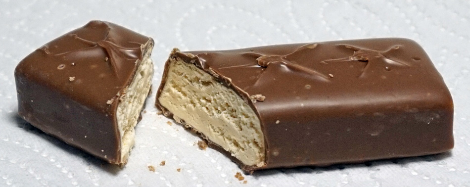 Milky Way chocolate bar halved. Total mass about 21,5 grams.